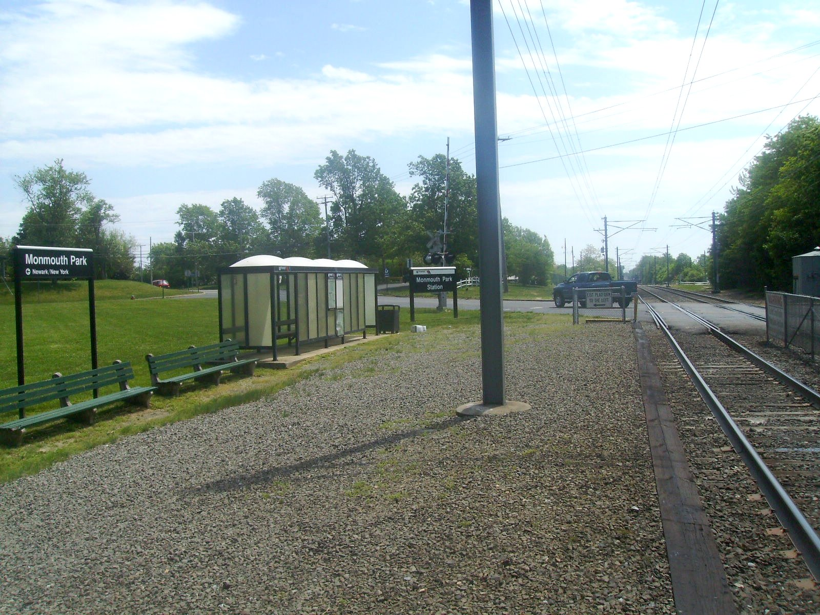 Monmouth Park station facing southbound in 2010. The station does not have an asphalt platform, only gravel. Port-au-Peck Avenue is visible in the background.